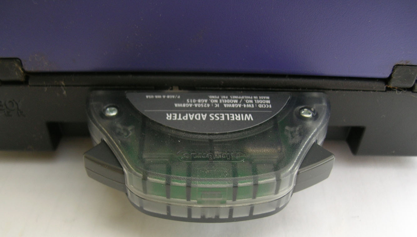 Game Boy Player with Wireless Adapter attached